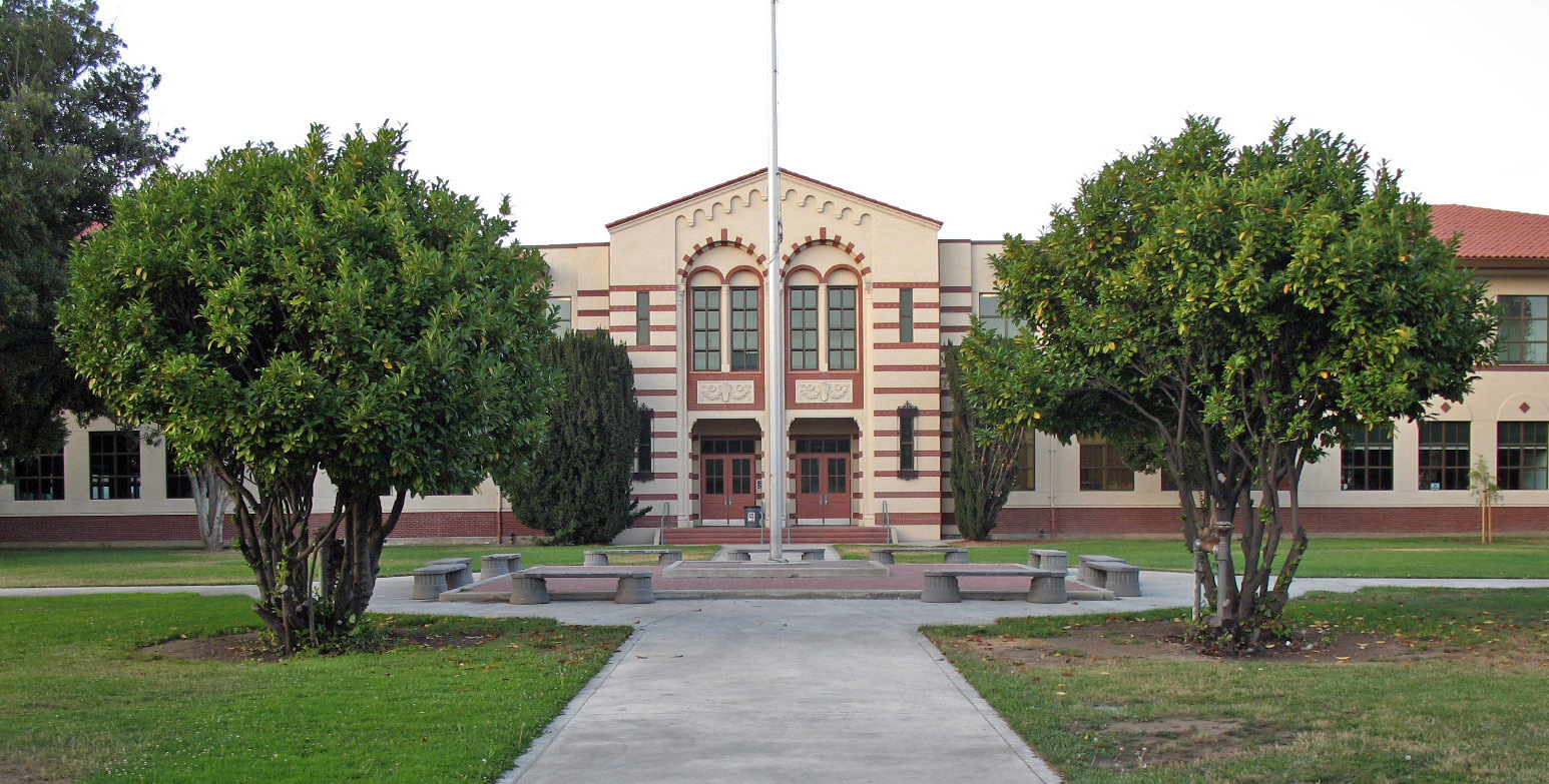 Registered Historic Places in Alameda County, California. Washington Union High School, 38442 Fremont Blvd, Fremont, California, USA. Photographed 2008-08-17 from the sidewalk on the north side of Fremont Blvd.